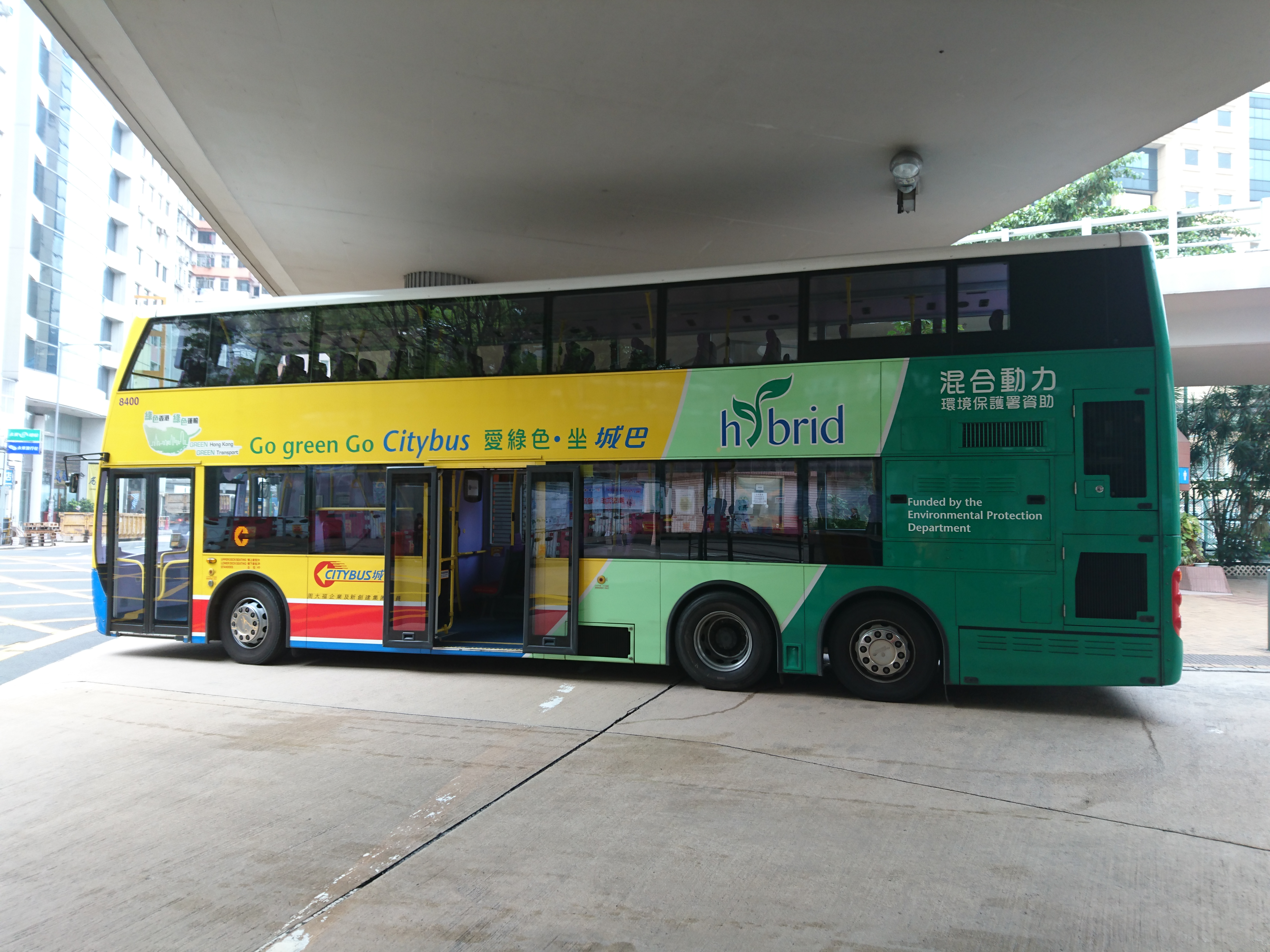 Citybus 8400 Hybrid Bus